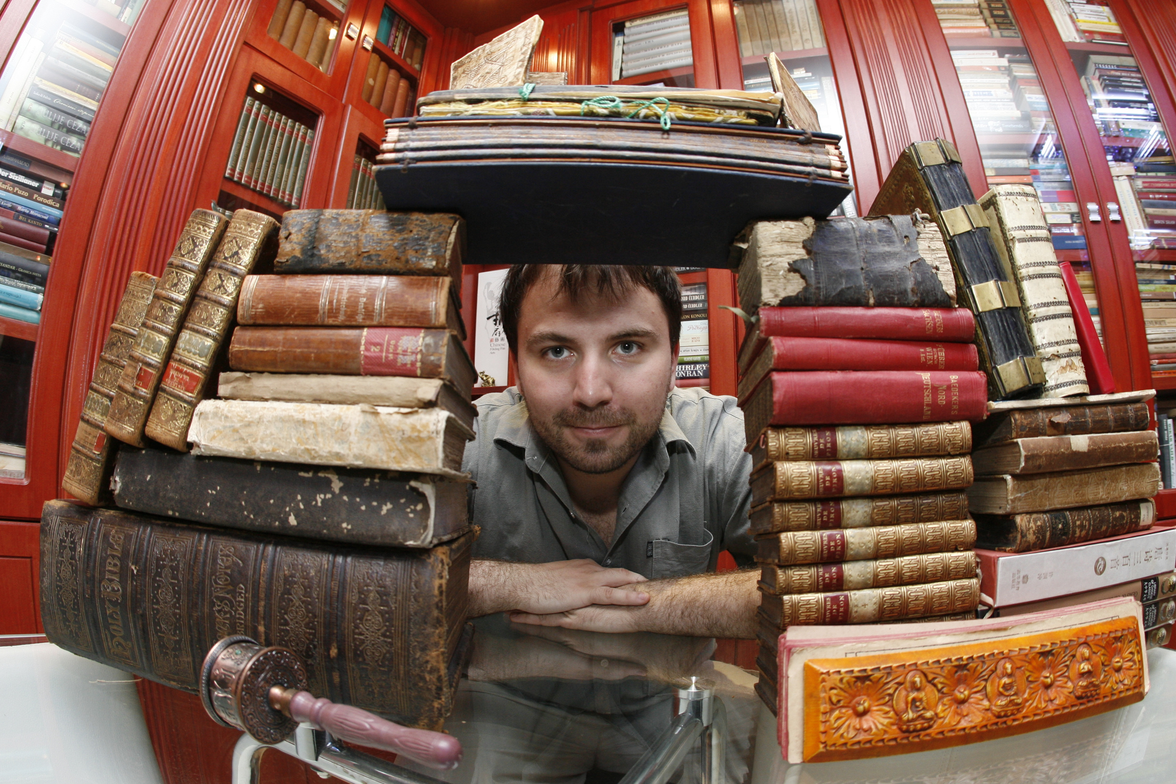 Viktor Lazić among books in the Museum of Book and Travel. Српски (ћирилица): Виктор Лазић међу књигама у Музеју књиге и путовања.